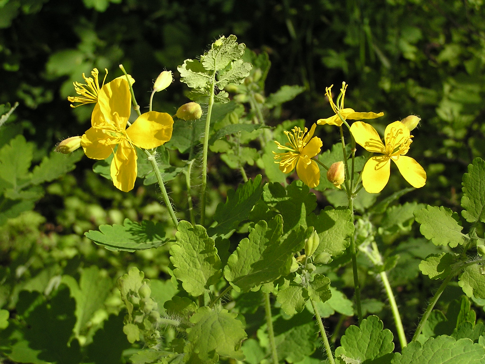 Celandine